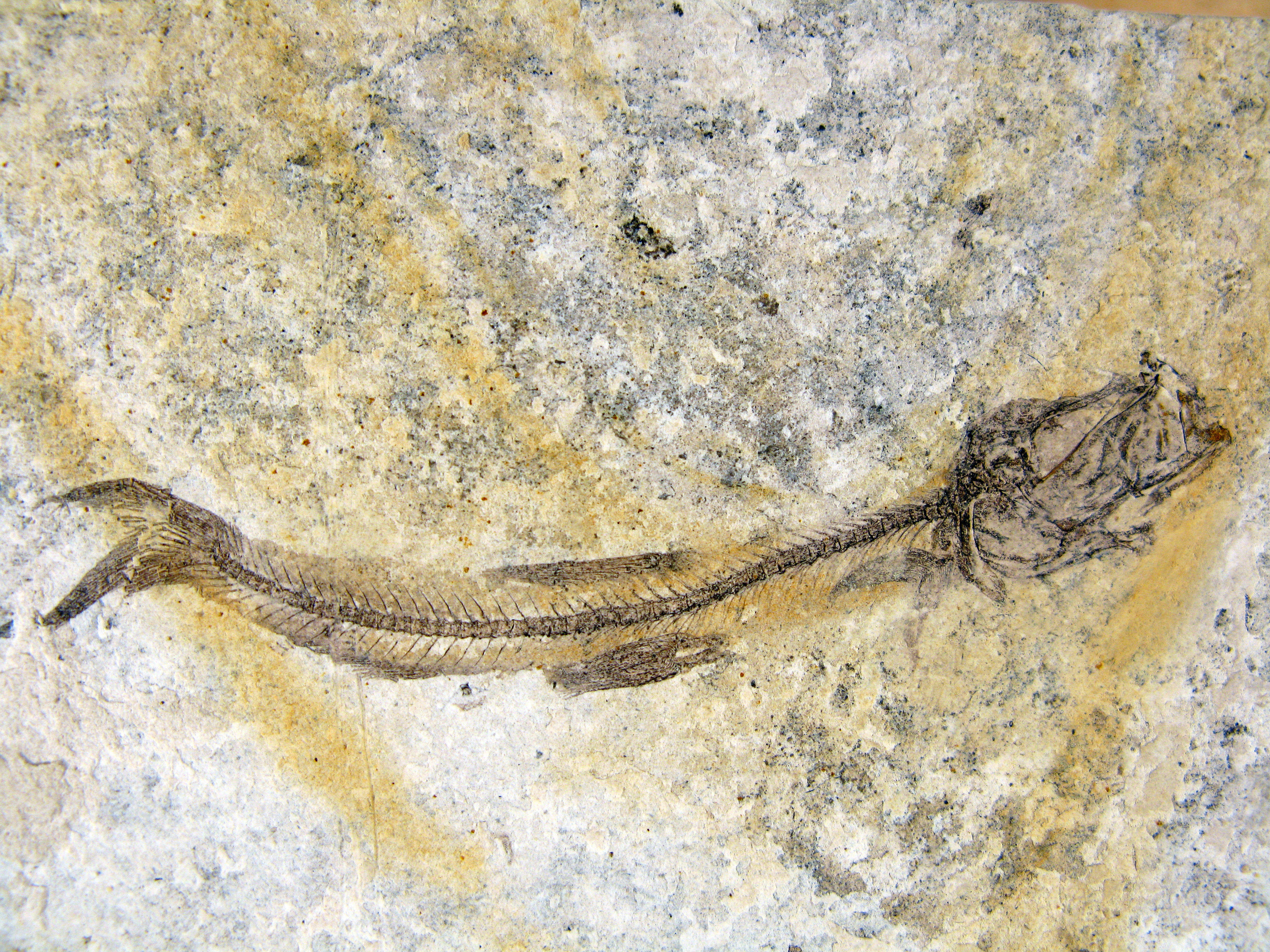 The most common fish in the Fur Formation